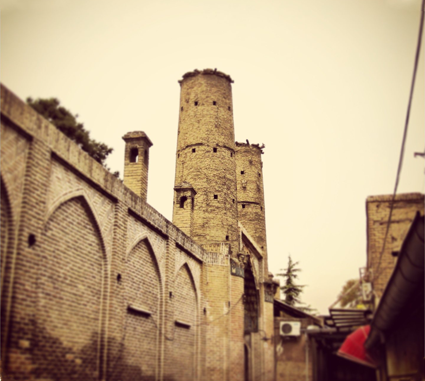 Oudlajan (Persian:عودلاجان) is a historic neighborhood in Tehran, Iran. The neighborhood is surrounded by Pamenar Street, Cyrus Street(Mostafa Khomeini), Cheragh Bargh(Amir Kabir) and BozarJomehr Street(15 Khordad). Oudlajan in addition to Arg, Dolat, Sangelaj, Bazar and Chalmeidan constituted the Old Tehran during the Naser Aldin Shah era. Old Oudlajan constituted of 2619 houses and 1146 shops and was one of the biggest and wealthiest neighborhoods in Tehran.[1]